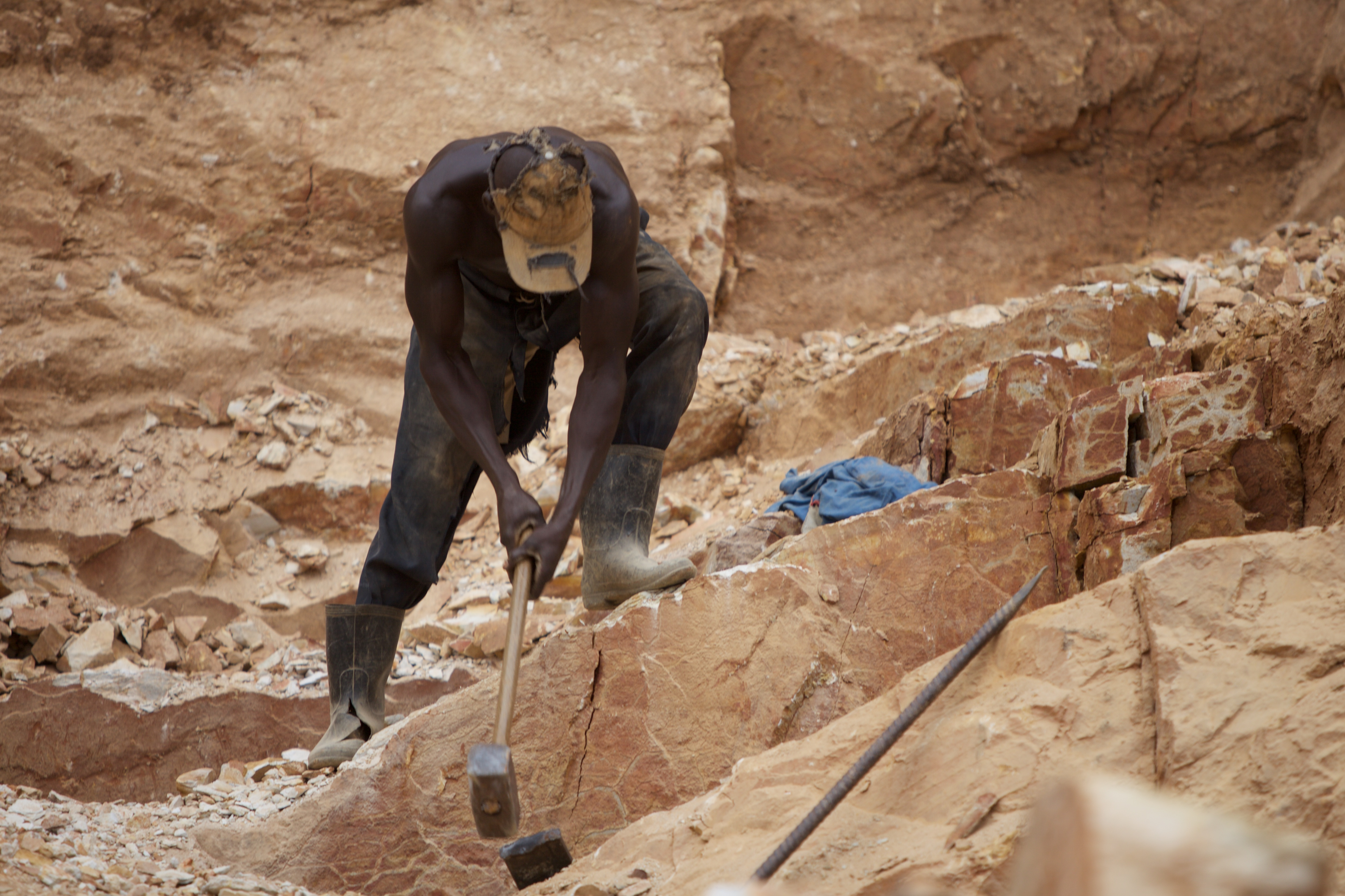 This is an image of "African people at work" from Central African Republic